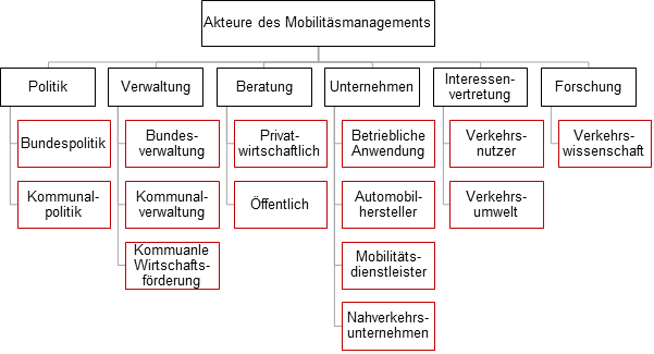 Die verschiedenen Akteursgruppen im Planungsfeld Mobilitätsmanagement